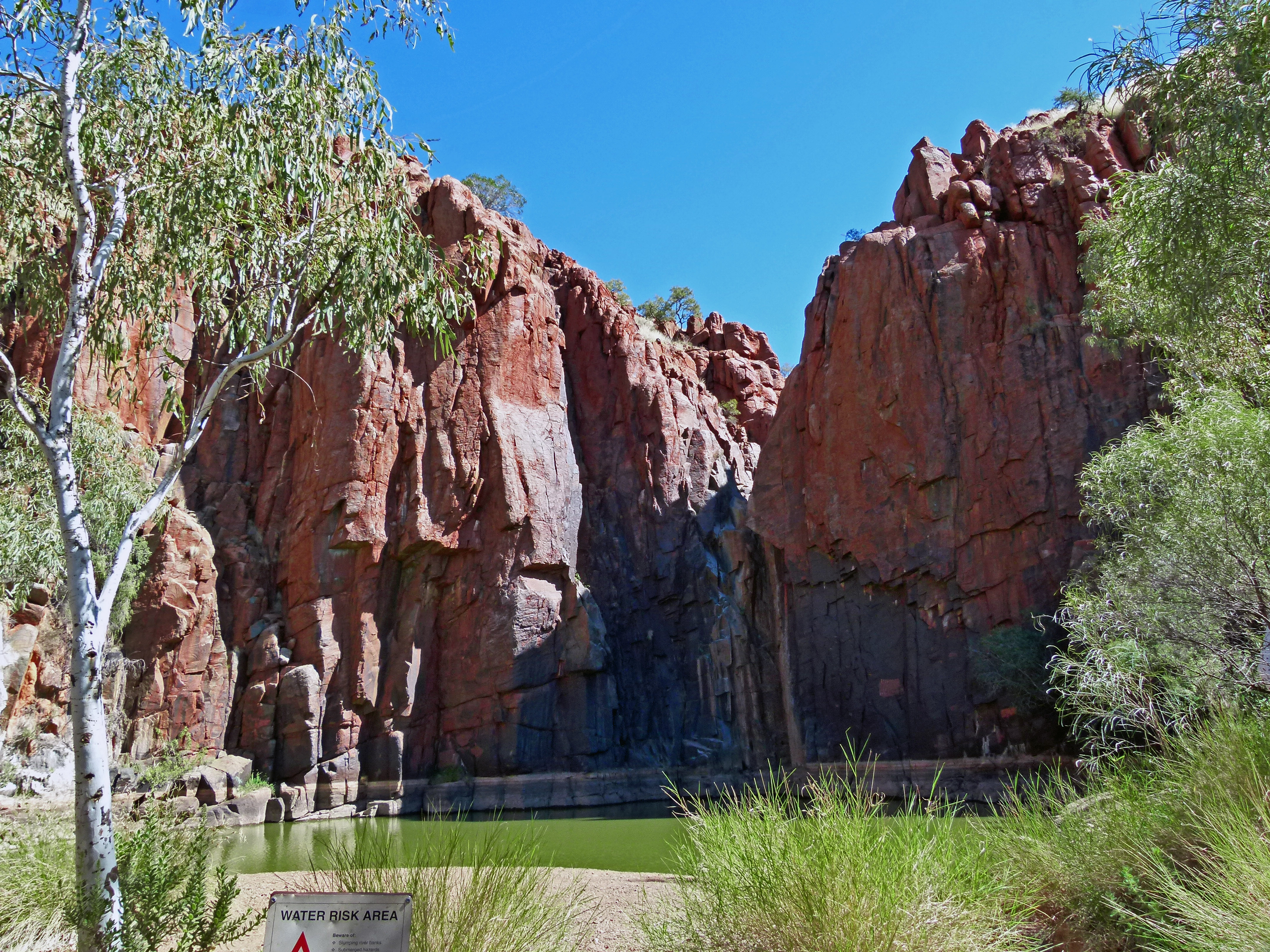 Python Pool in the Millstream-Chichester National Park. Deep burgundy soils and rocks are from the high concentration of iron.